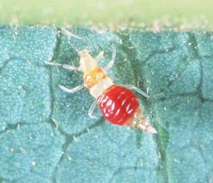 Larva of Franklinothrips vespiformis.